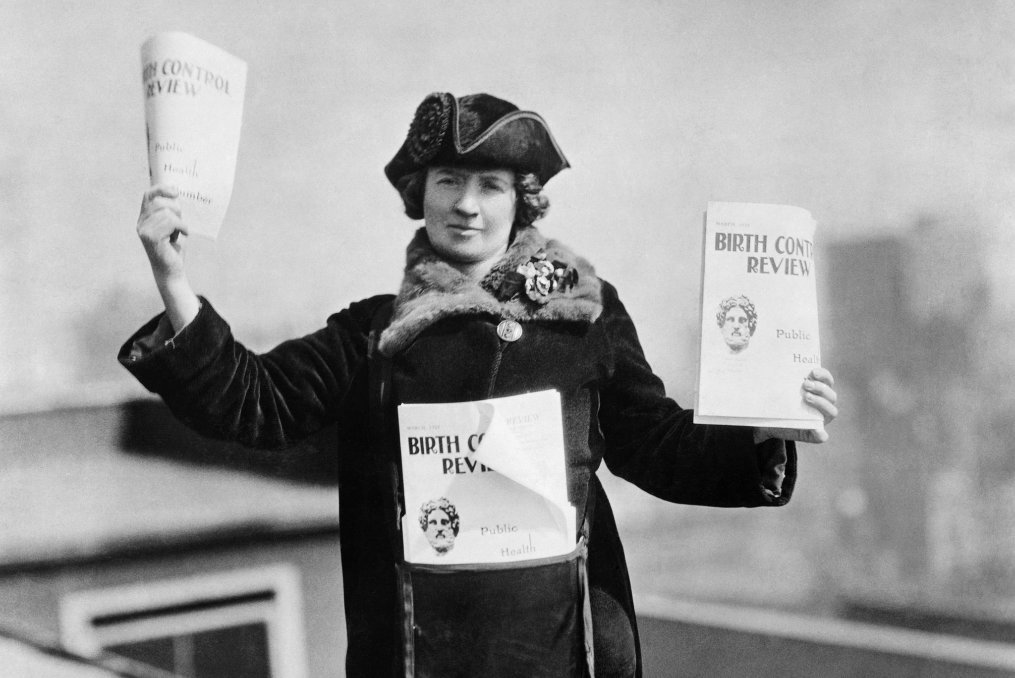 Kitty Marion with copies of the Birth Control Review in 1915 (per Getty).